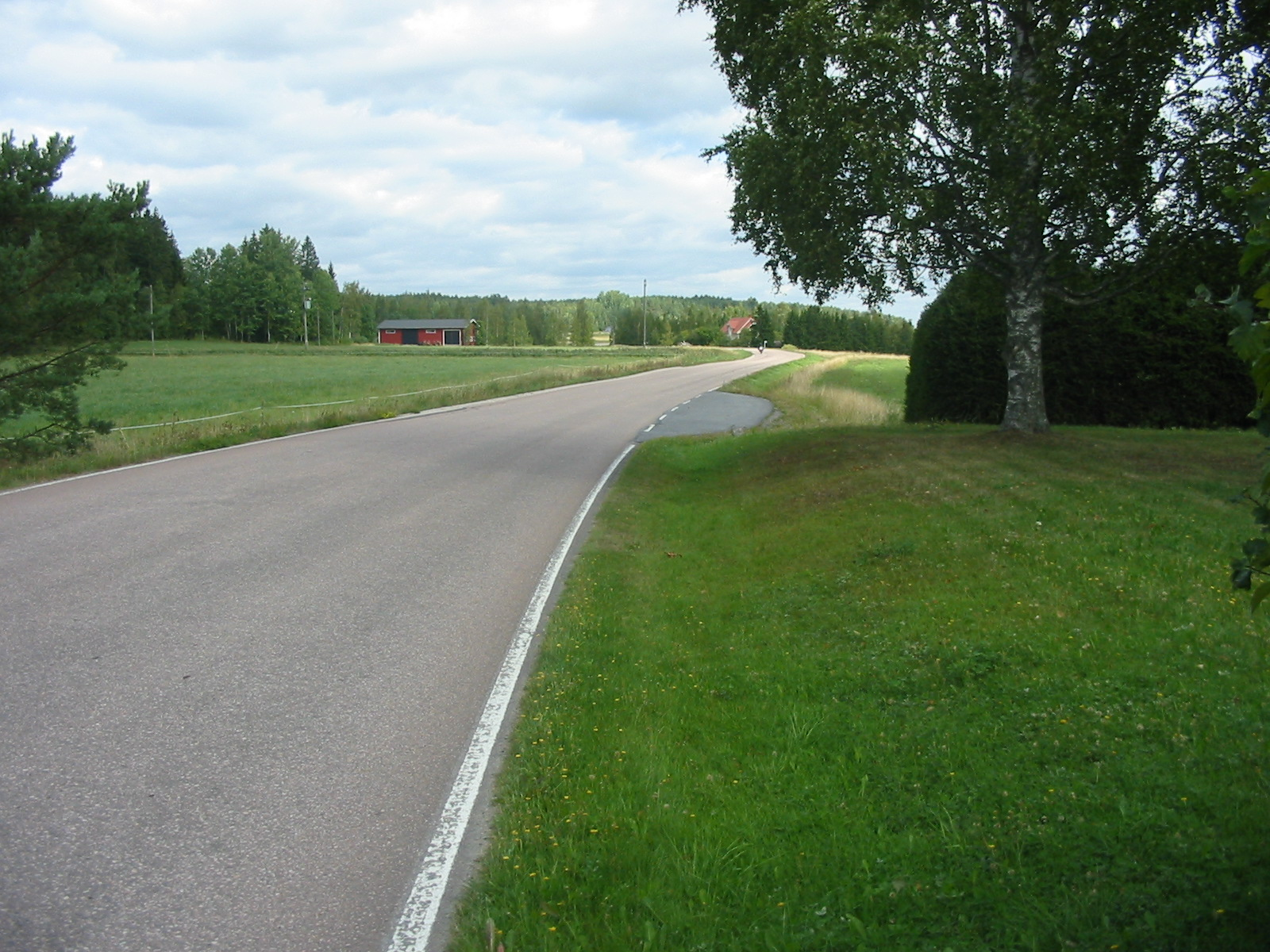 Connecting road 2264, part of the Häme Oxen Road in Marttila, Finland